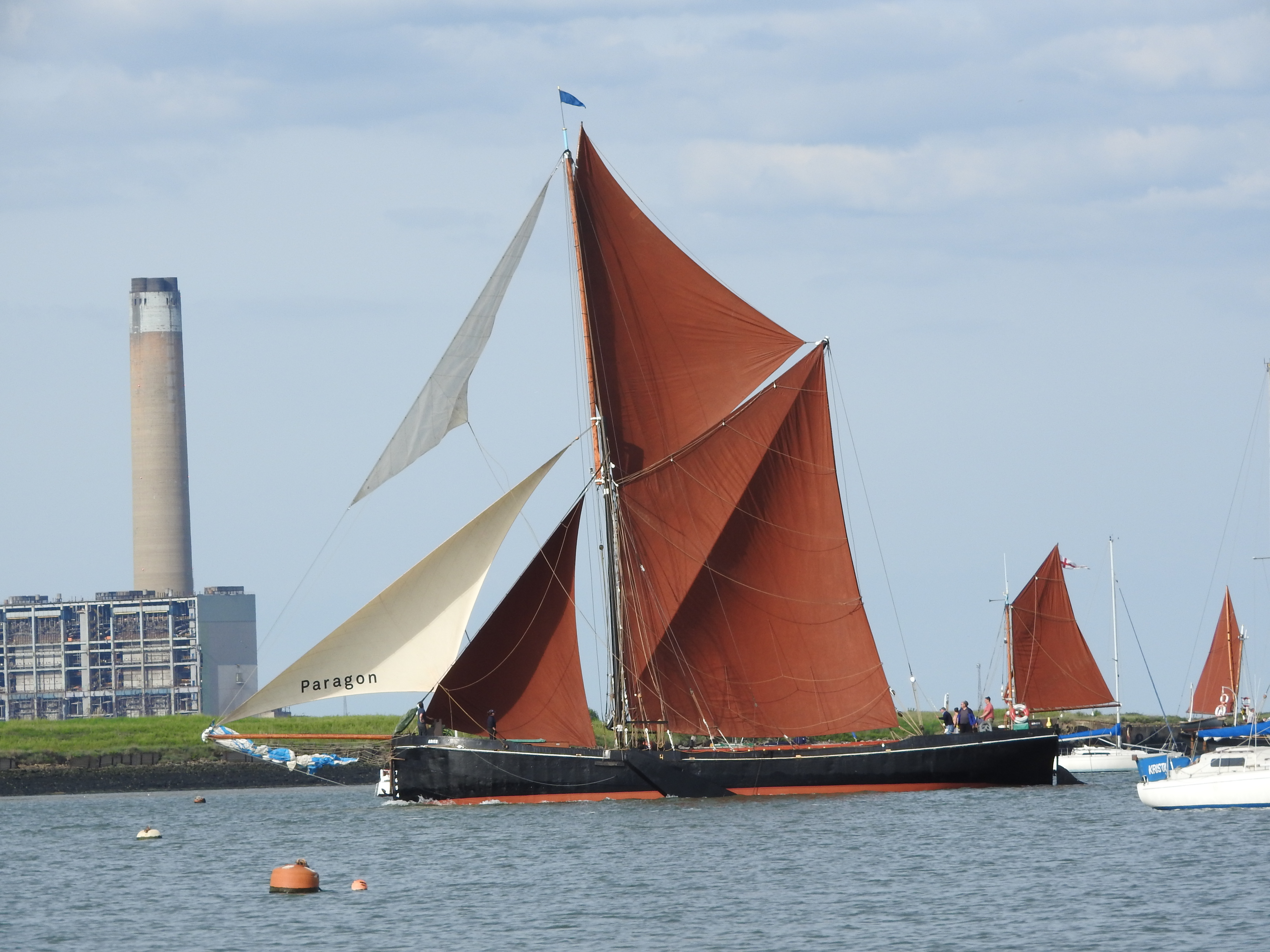 Adieu competing in the 109th Medway Barge Sailing match, viewed from Gillingham Strand.